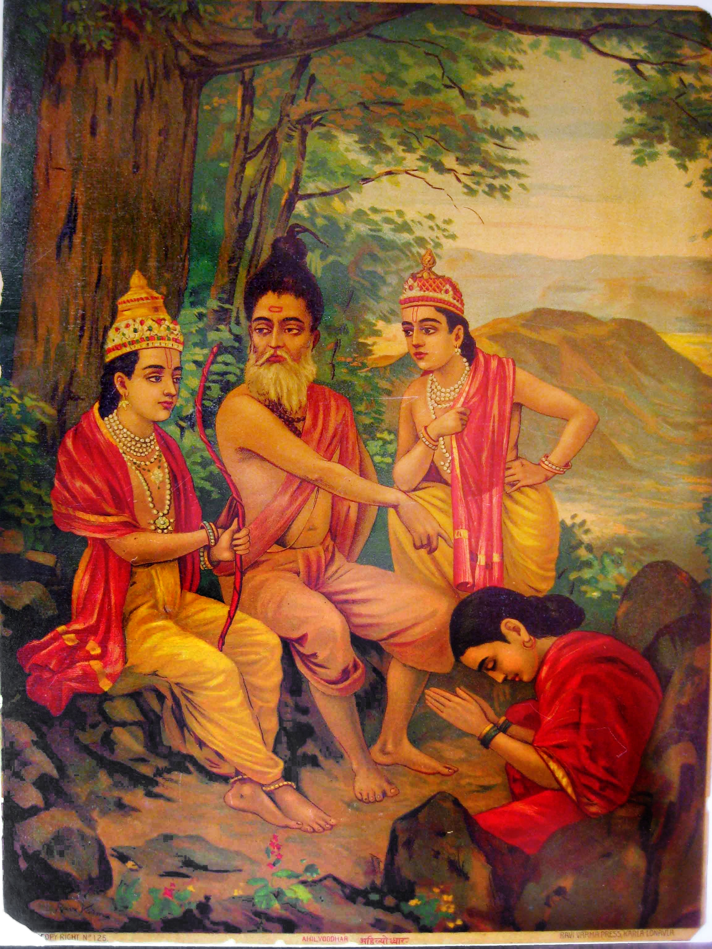 Rama releasing Ahalya from curse. Lakshmana and sage Vishvamitra are present.